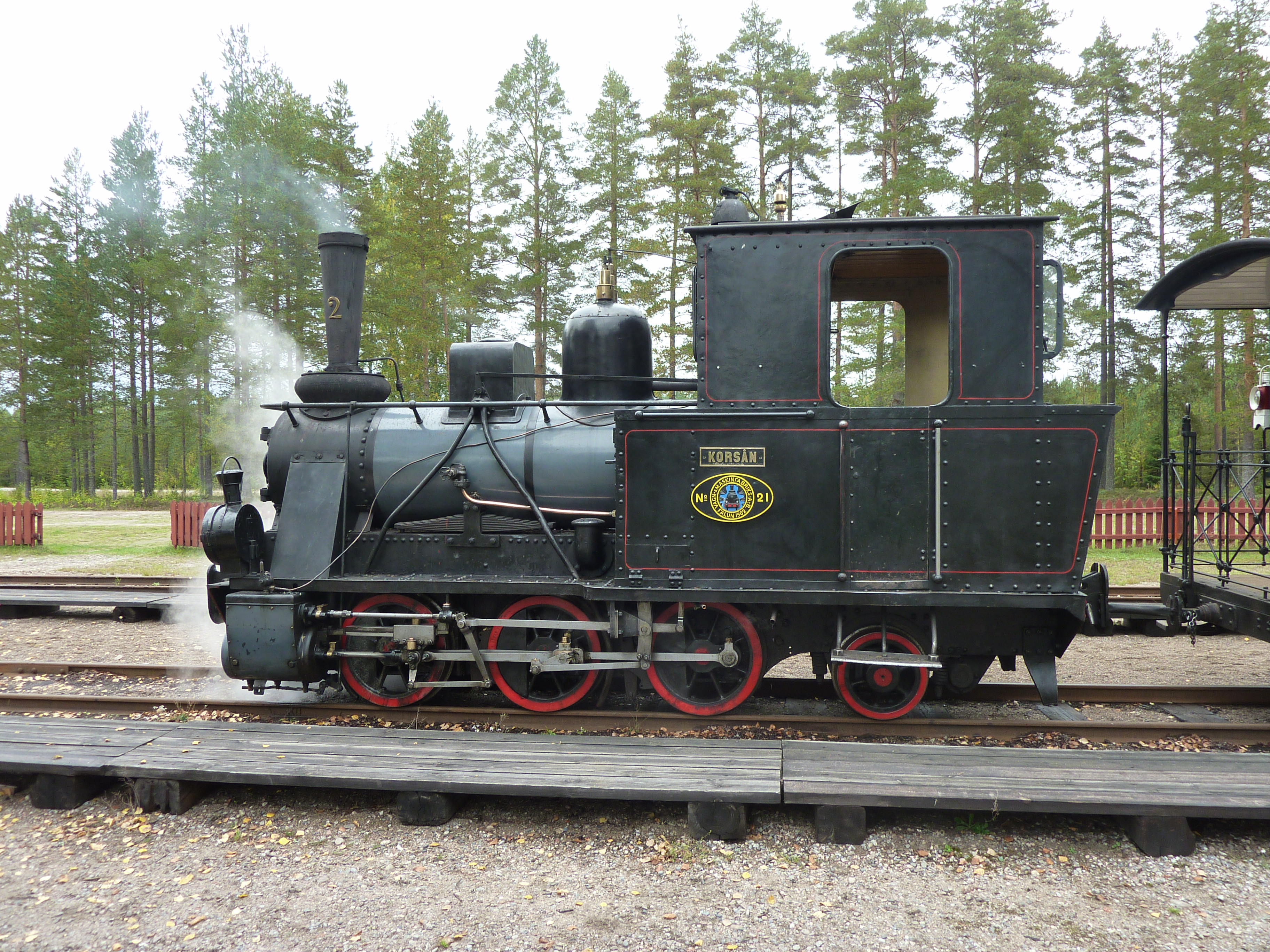 Steam engine No 21 Korsån, built by Vagnsfabriks AB in Falun 1902, at Tallås station, at Jädraås - Tallås museum railway (JTJ) in Sweden